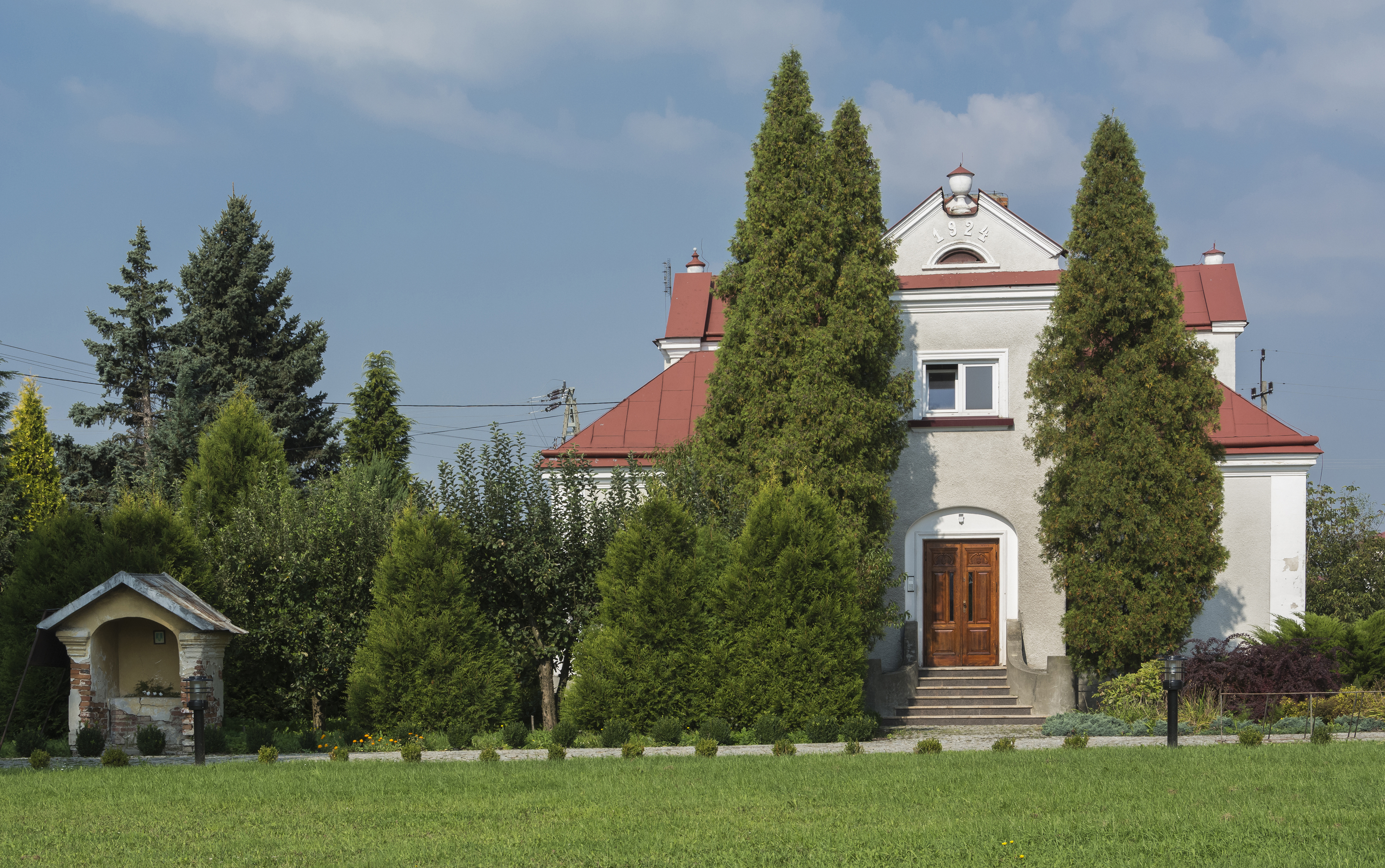 Rectory at the Church of St. Mark the Evangelist in Mielec